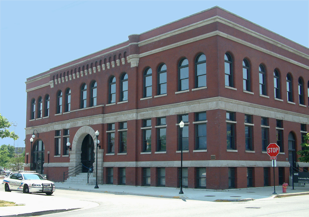 The 7th District Police Station — University of Illinois at Chicago campus, West Side district of Chicago, Illinois. On the National Register of Historic Places in Chicago. The "Precinct House" in the former TV series Hill Street Blues. Credits In 2005, taken by Andy Lambert. Hill Street Blues Web Site